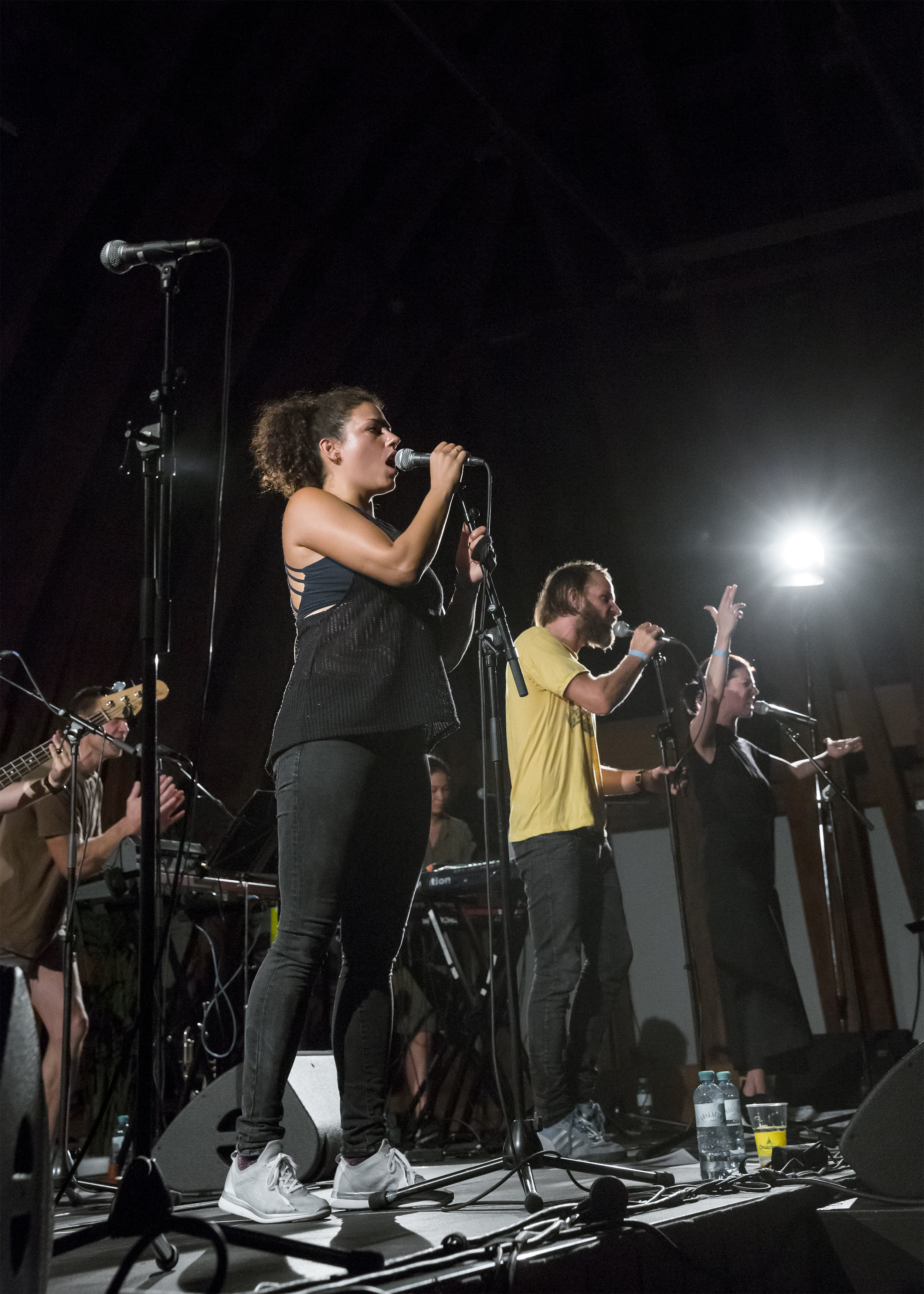 Gustav und die Proloband, concert performance of the newly arranged Proletenpassion at Popfest 2017 in Vienna, Austria.